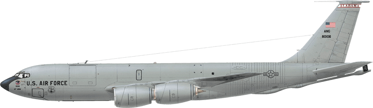 Alabama ANG 117th Air Refueling Wing KC-135 illustration